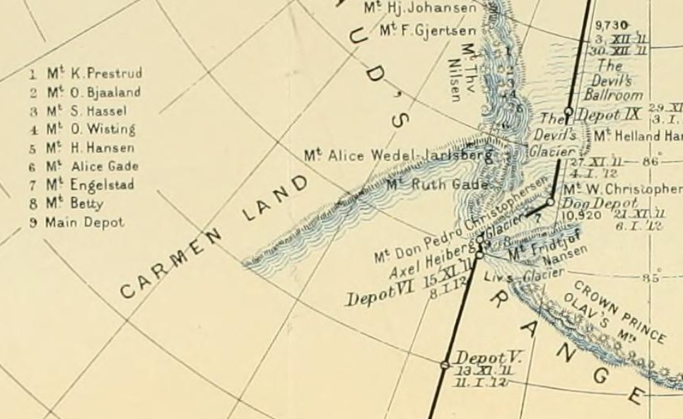 Location of Amundsens Carmen Land on a map drawn by him after his south pole expedition